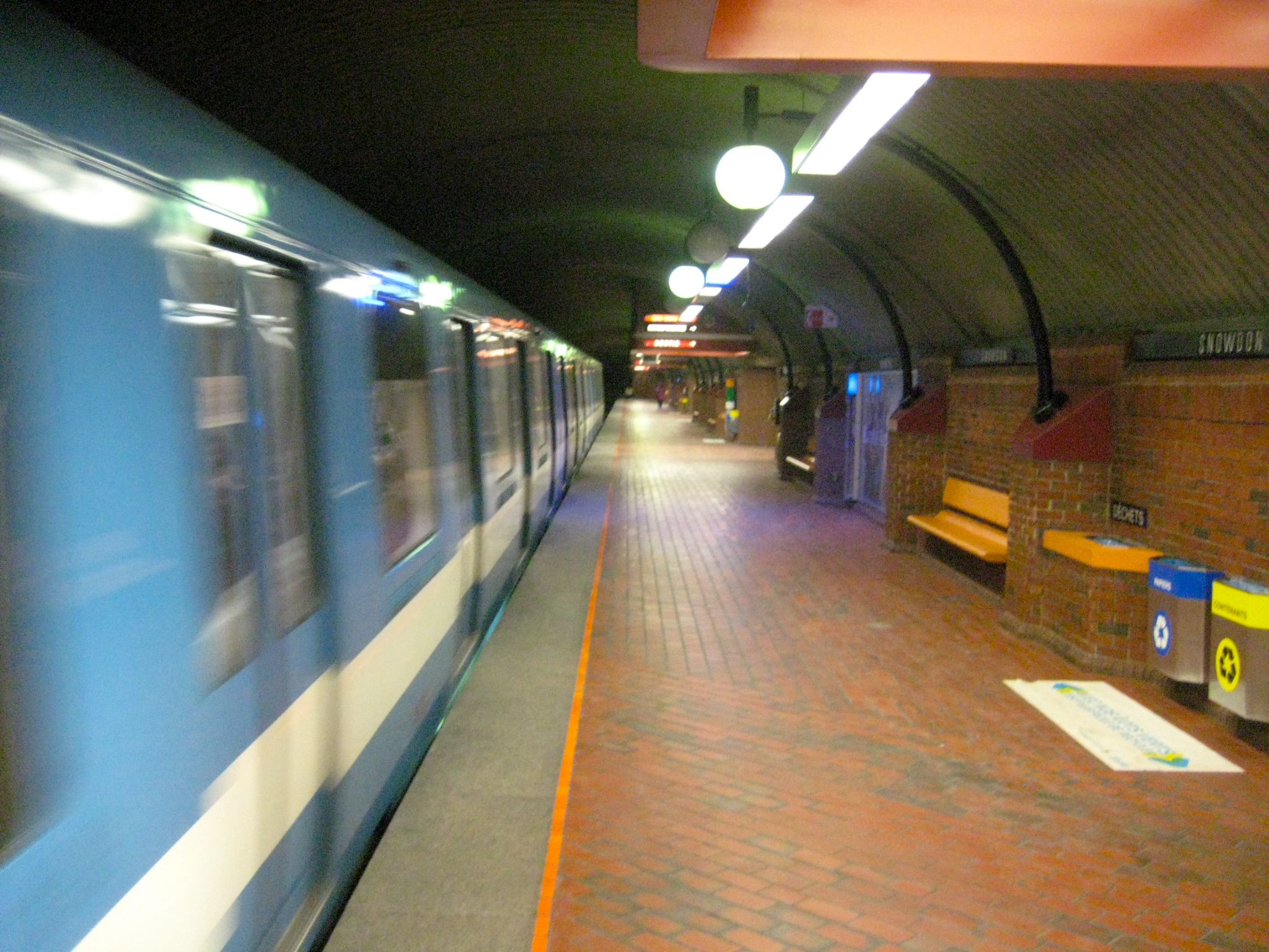 Orange line platform, Snowdon Station, Montreal Metro